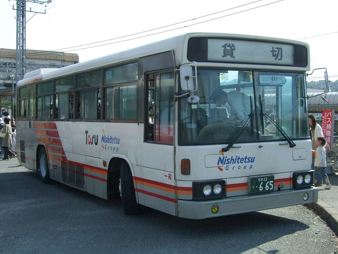 Company:Nishitetsu Bus Saga Car license:佐賀22き・665 Belongs to:Tosu branch Chassis manufacturer:Mitsubishi Motors Coachbuilder:Nishinippon Shatai Kogyo Place:in Chikushino City, Fukuoka, Japan